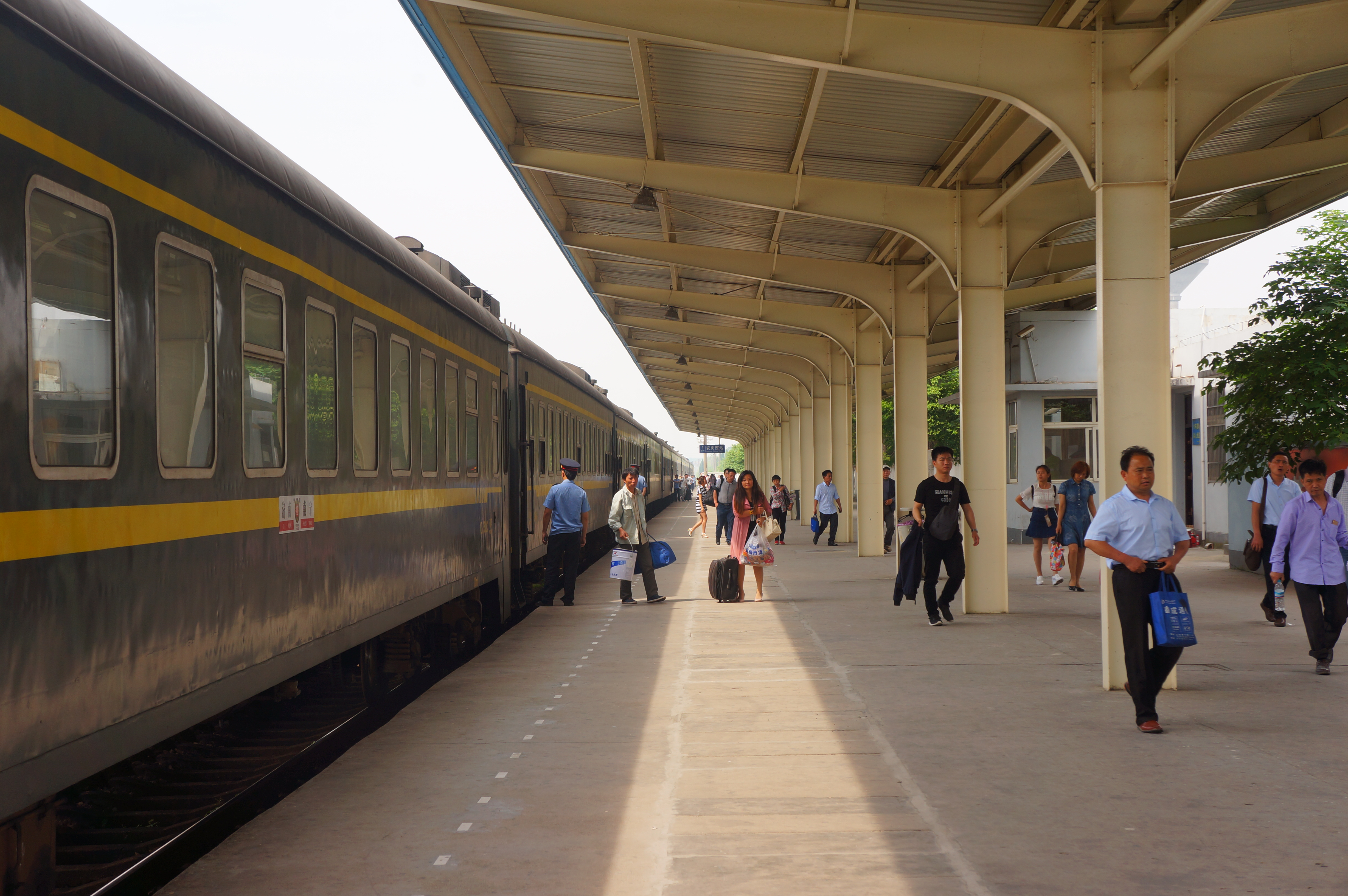 201705 Platform 1 of Anqingxi Station